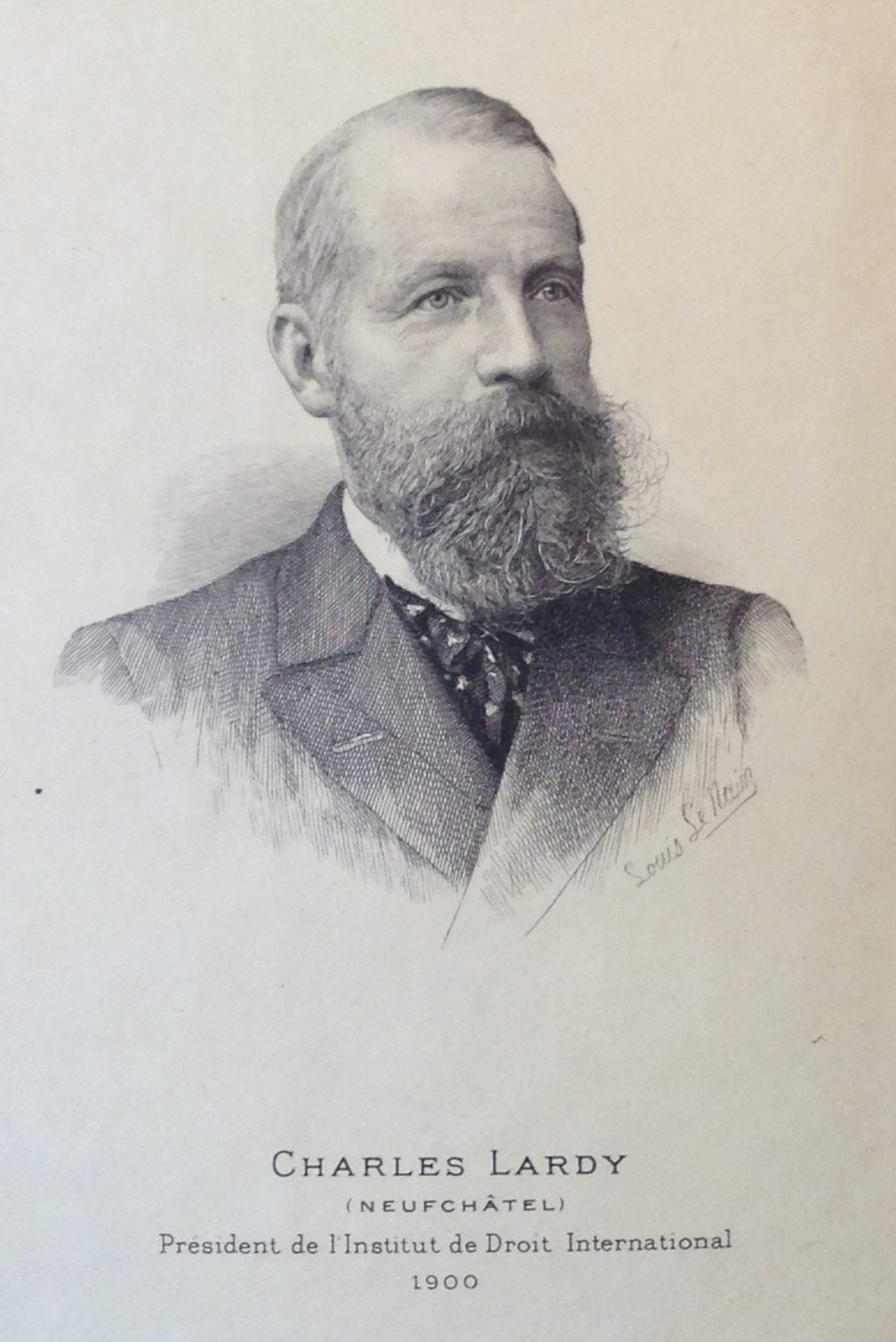 Charles Edouard Lardy Président de l'Institut de droit international